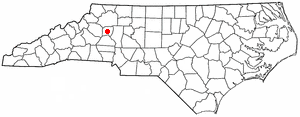 Category:North Carolina Dot Maps